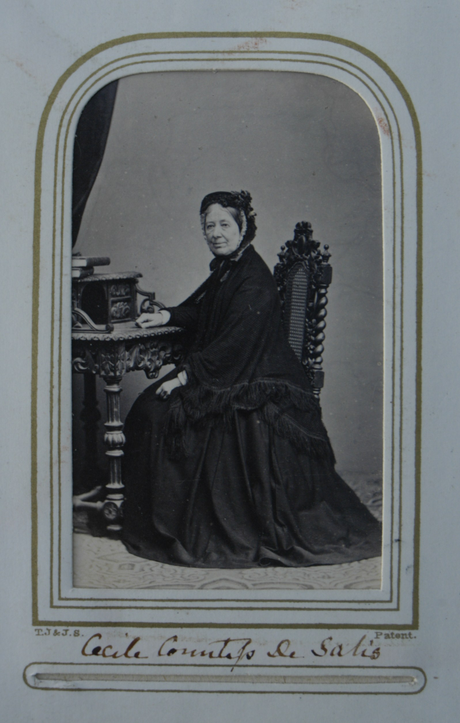 My photo (Rodolph (talk) 23:26, 10 August 2013 (UTC)) of a Carte de visite of Cecile, Countess de Salis (1802-92). Cecile Henrietta Marguerite was daughter of David Bourgeoise of Neufchatel.